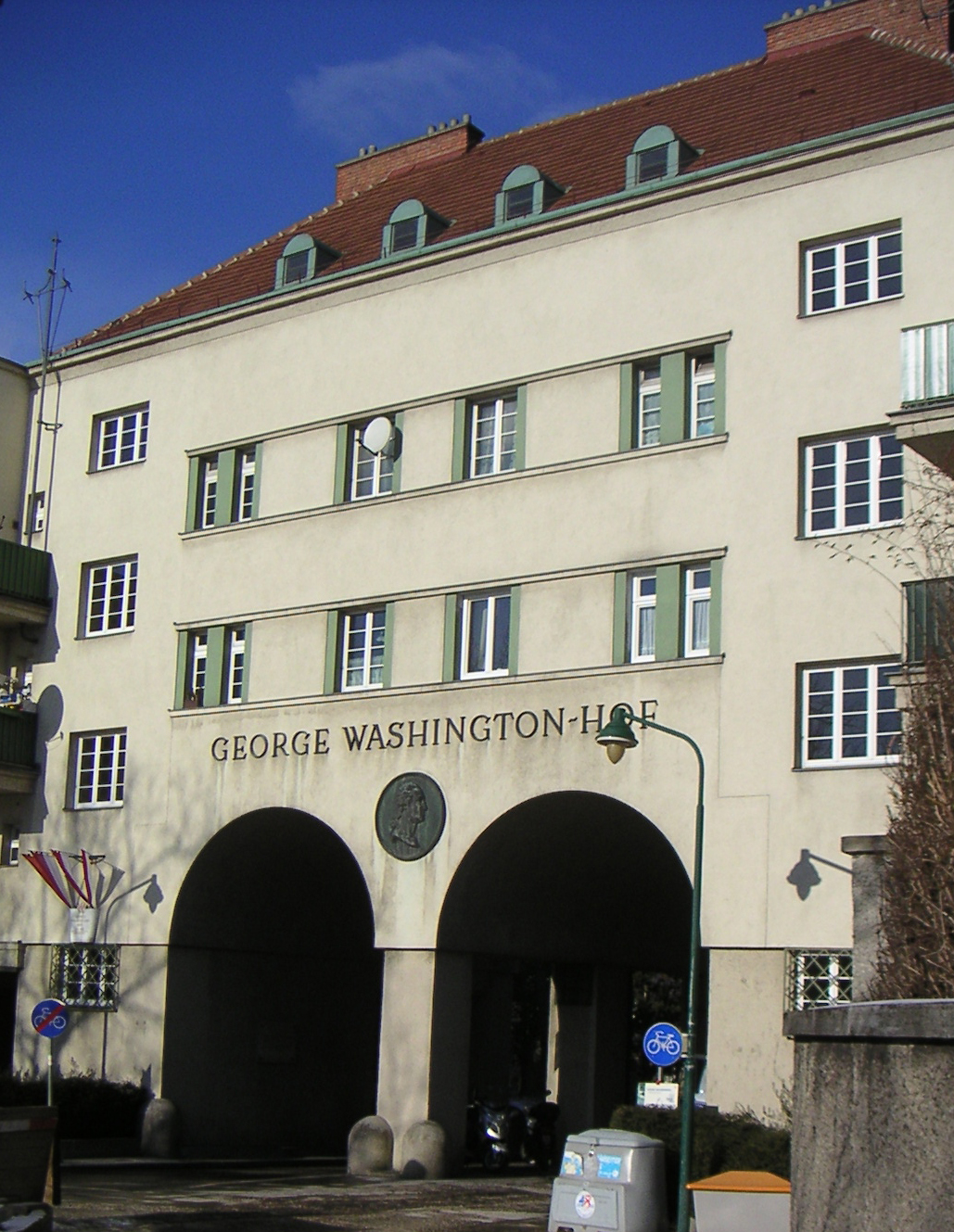 George Washington-Hof in Wien, selbst fotografiert; George Washington building in Vienna